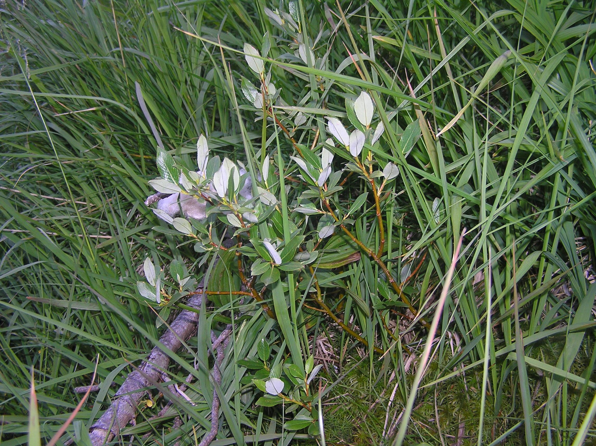 Salix bicolor, the locality Úpská jáma in Obří Důl, Krkonoše Mountains, Czech Republic